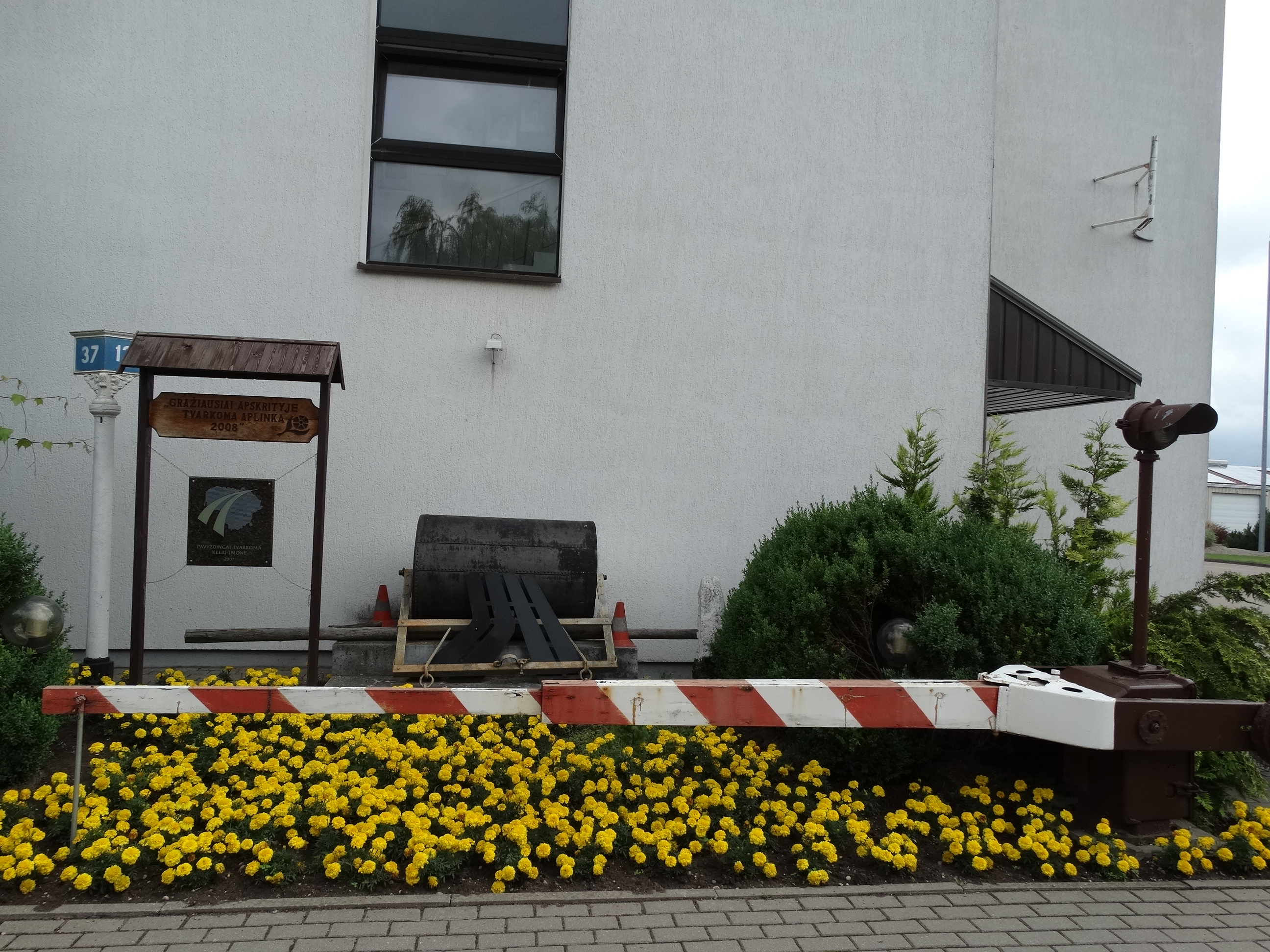 Vievis, museum of highways, Elektrėnai Municipality, Lithuania